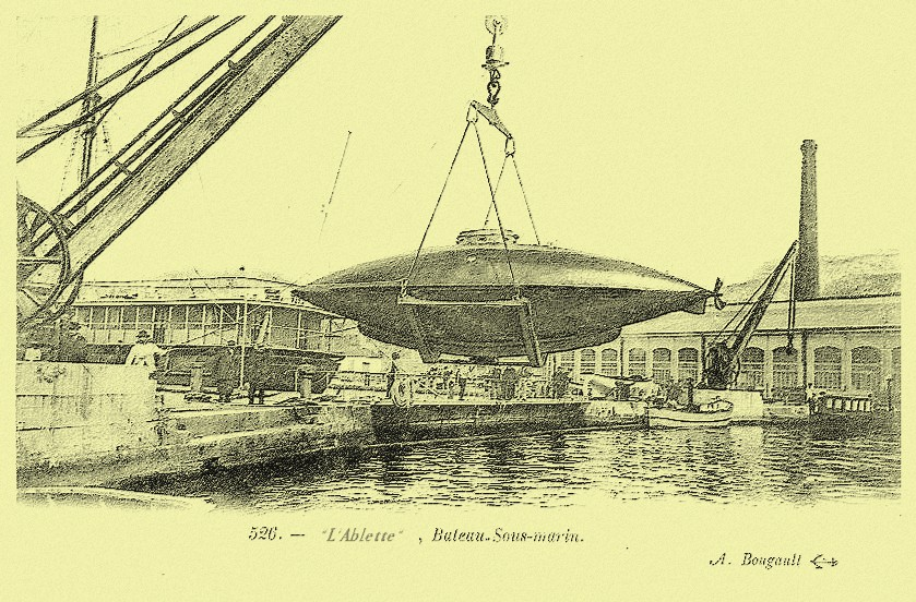 French submarine Ablette Information requested; See talk page